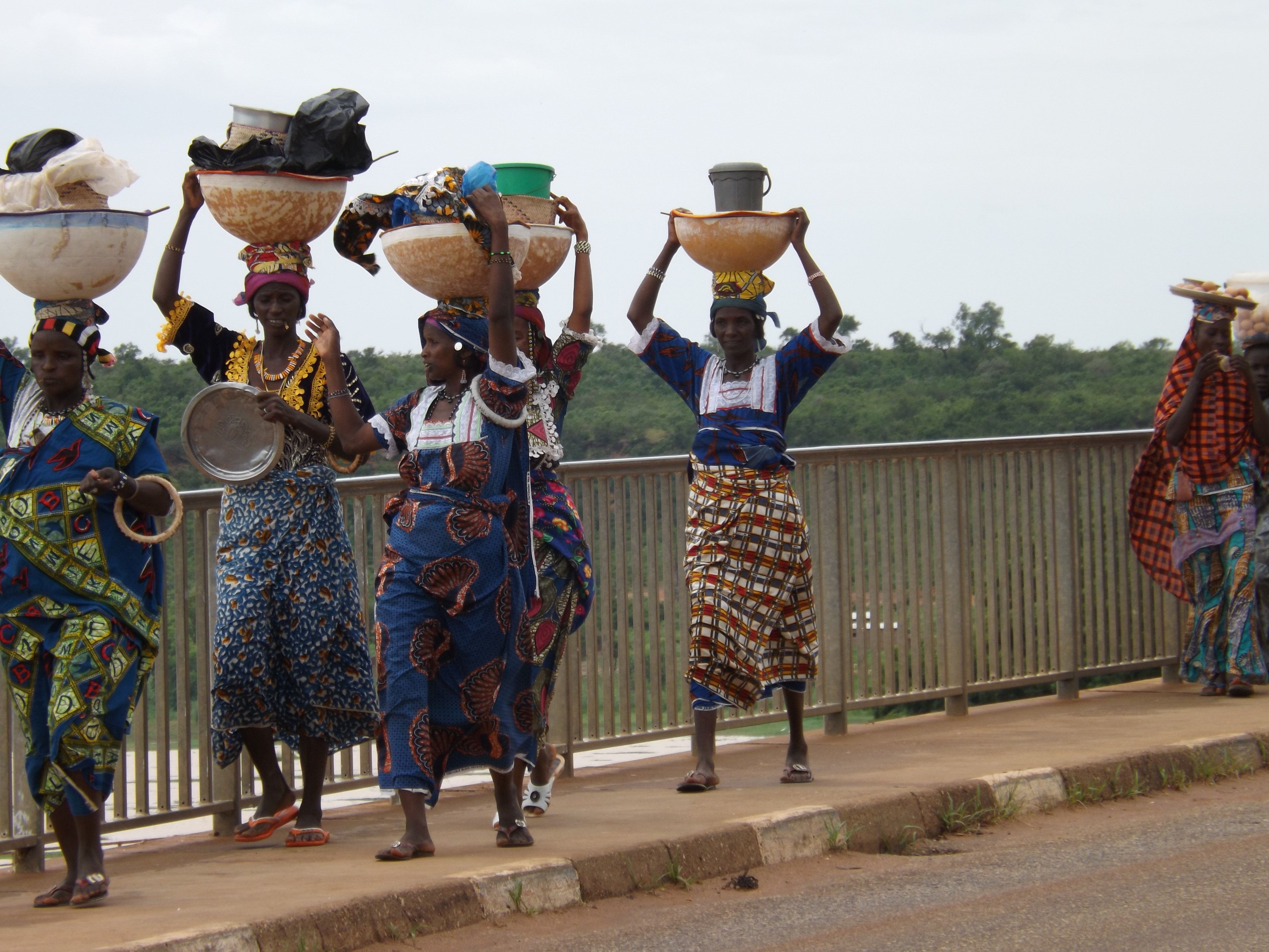 This is an image with the theme "Africa on the Move or Transport" from: Benin